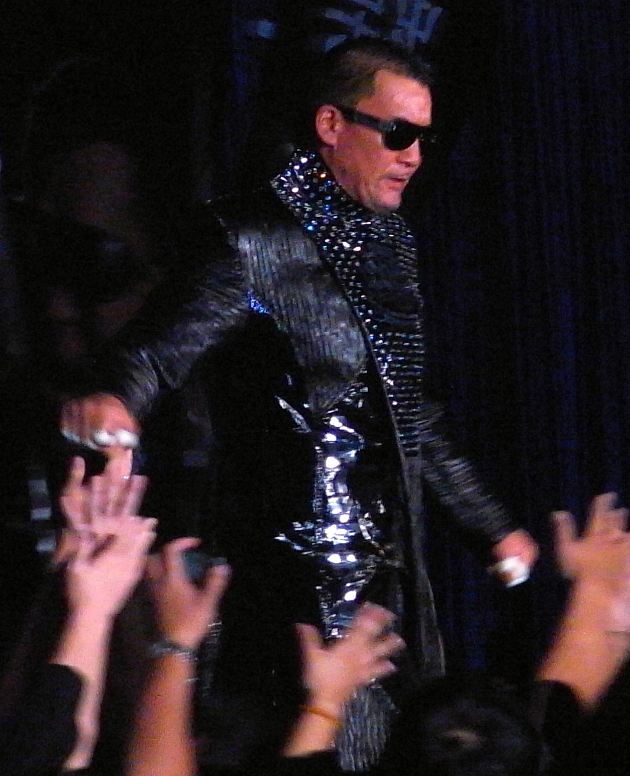 Masahiro Chono at AJPW "Pro-Wrestling Love in Taiwan 2010", the National Taiwan University Gymnasium, Taipei.